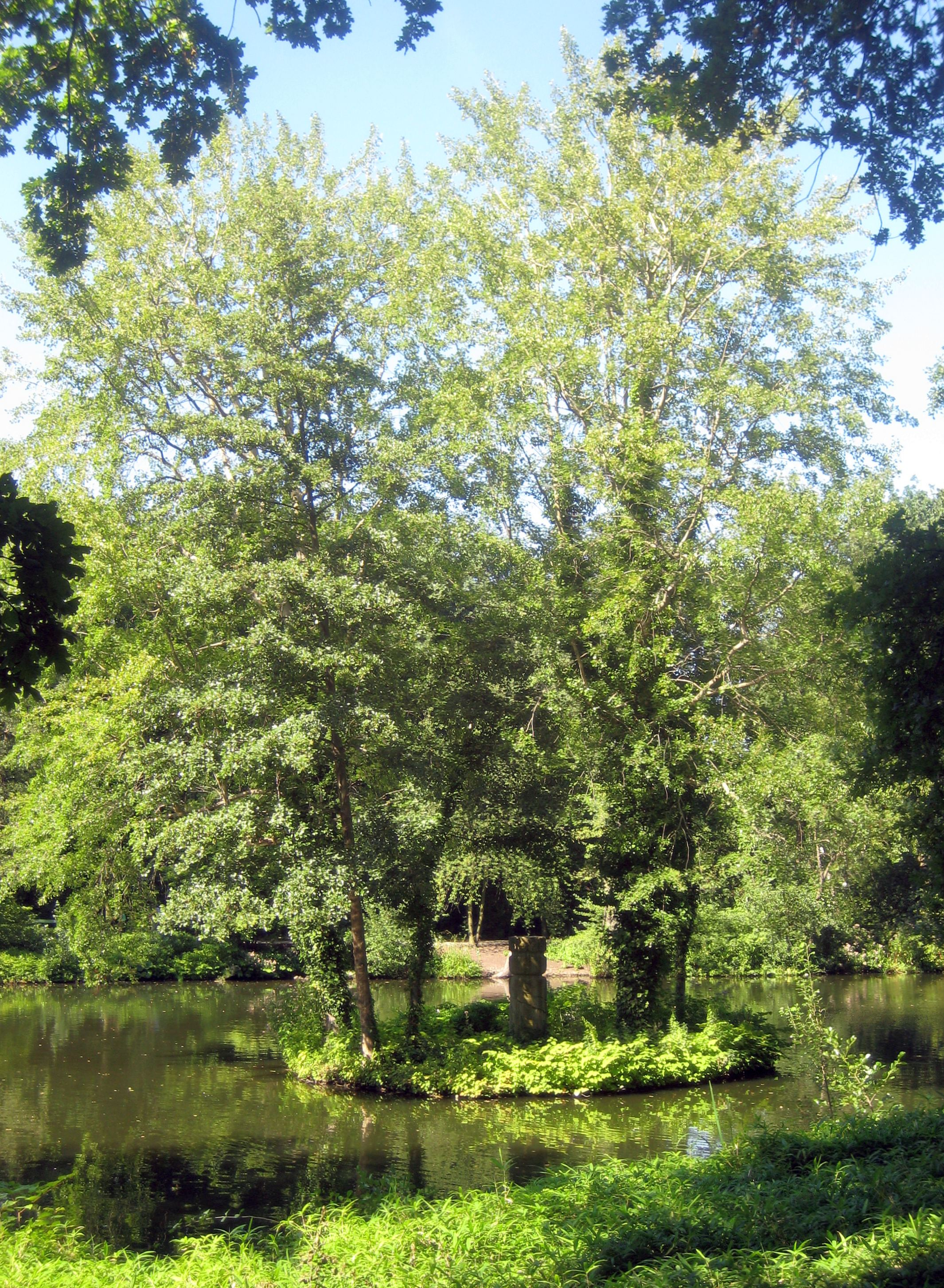 Rousseau-Insel (Rousseau's Island) in Großer Tiergarten park in Berlin, dedicated to Jean-Jacques Rousseau with memorial column, frist erected in 1897, new column sculptured by Günter Anlauf in 1987.